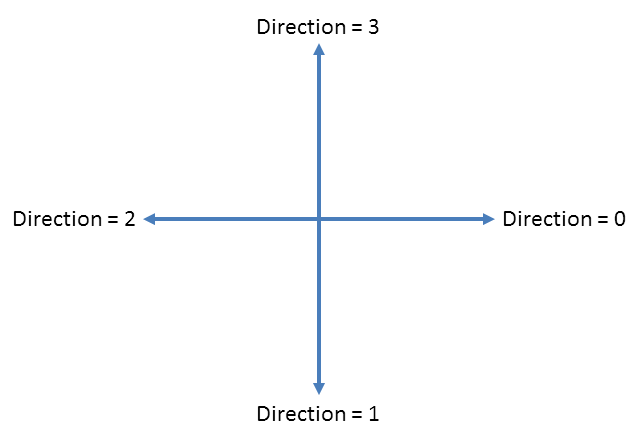 The direction assignments given to various crack orientations to create a means of coding a set of boundary points.